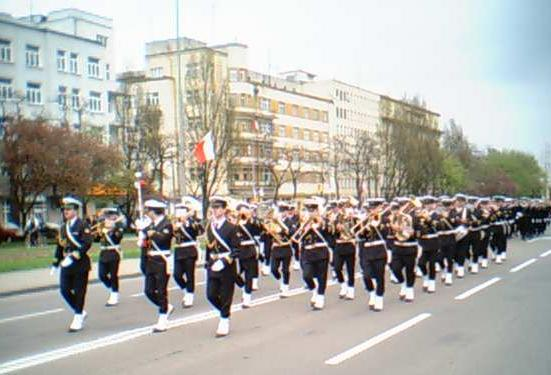 Military Orchestra of the Polish Navy.